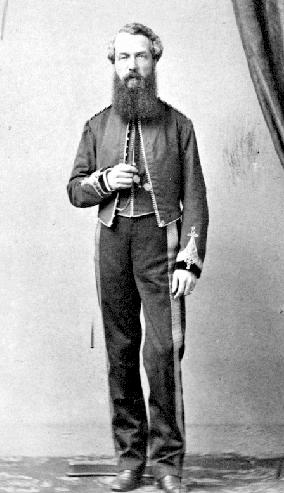 Colonel Richard Clement Moody, Royal Engineer.